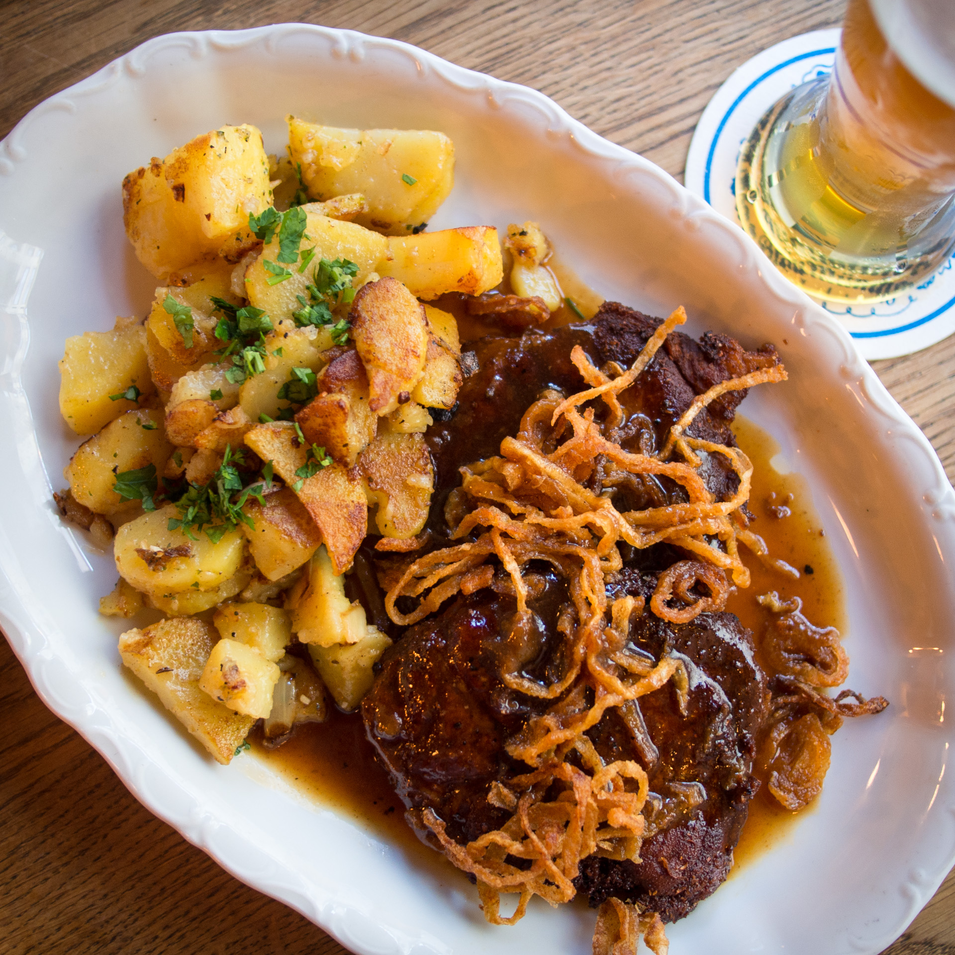 "Holzfällersteak" at a pub in Munich